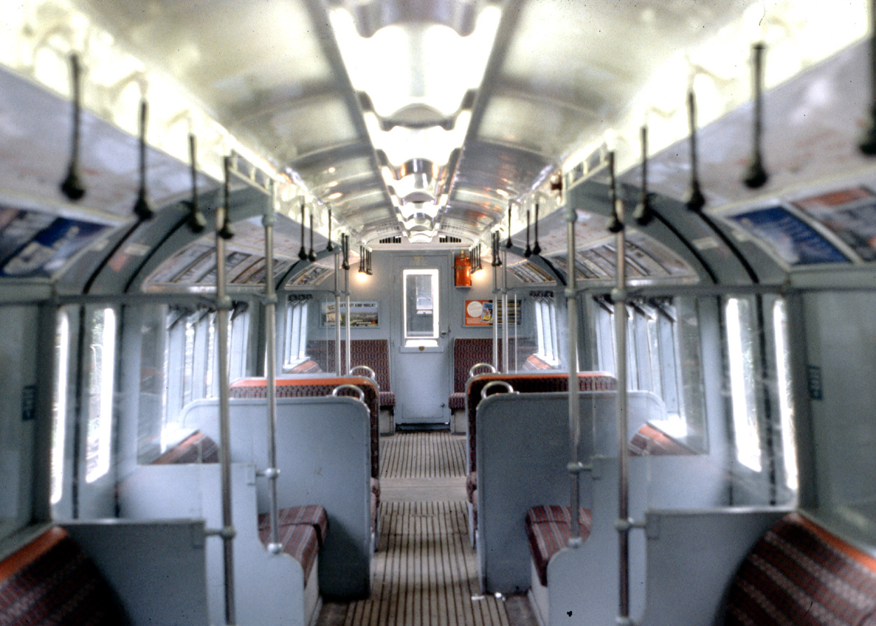 Inside 1960 tube stock trailer No. 4905. Photographed by SP Smiler